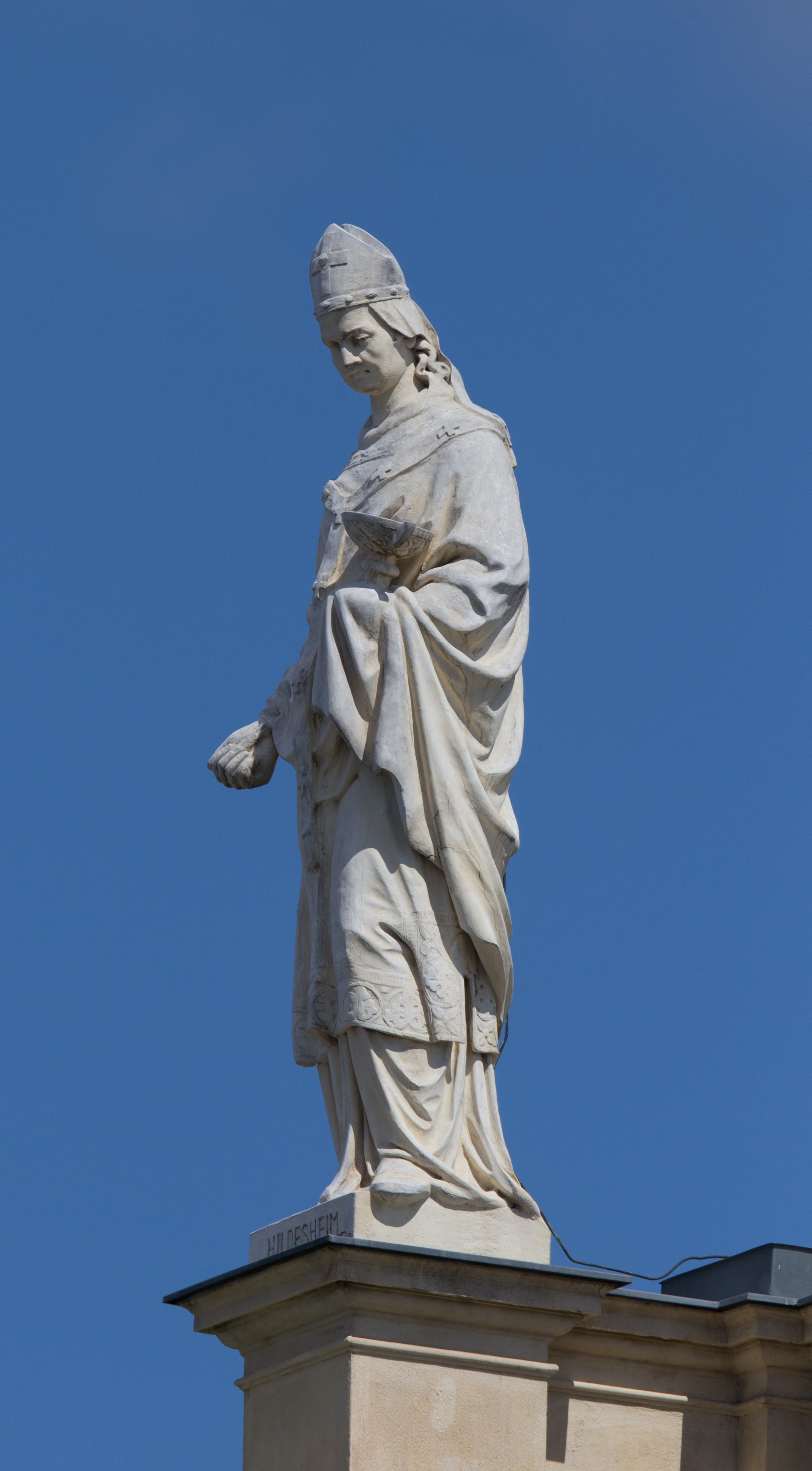 Kunsthistorisches Museum in Vienna Figures on the roof The making of this work was supported by Wikimedia Austria. For other files made with the support of Wikimedia Austria, please see the category Supported by Wikimedia Österreich.